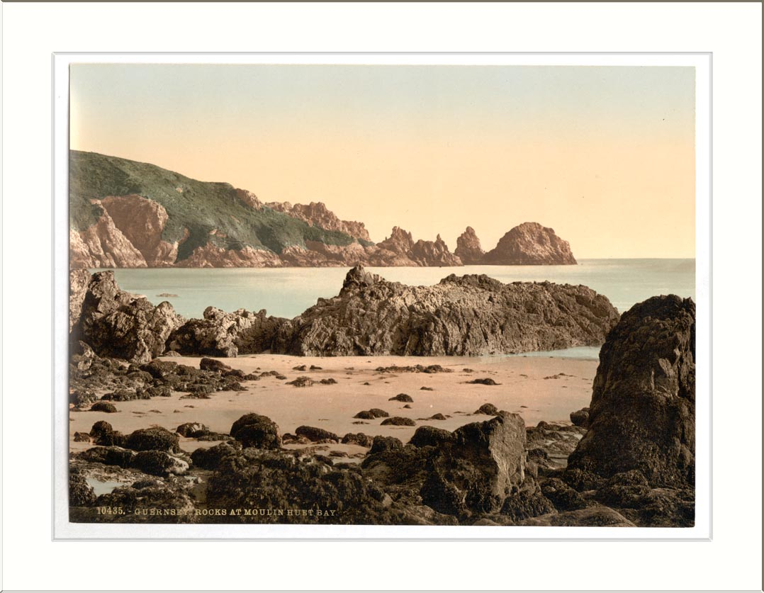 Guernsey, Moulin Huet Bay and Icart Point